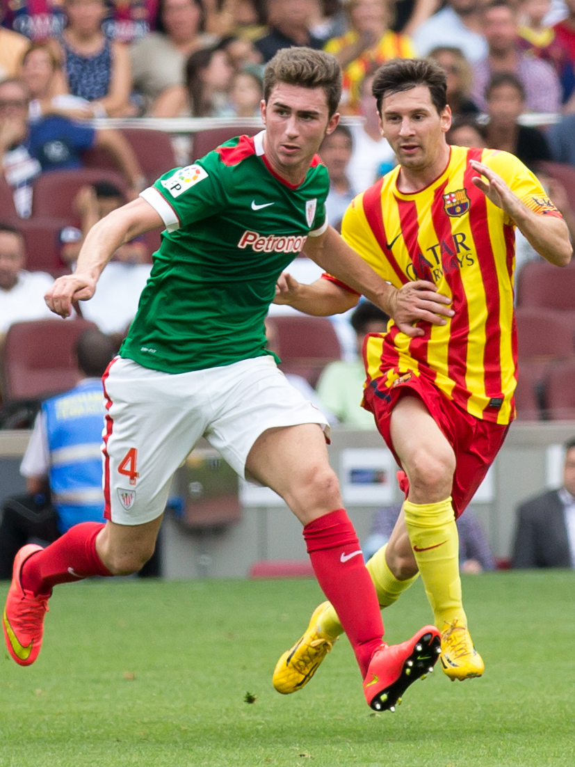 Aymeric Laporte and Leo Messi during La Liga clash between FC Barcelona and Athletic Bilbao in September 2014.